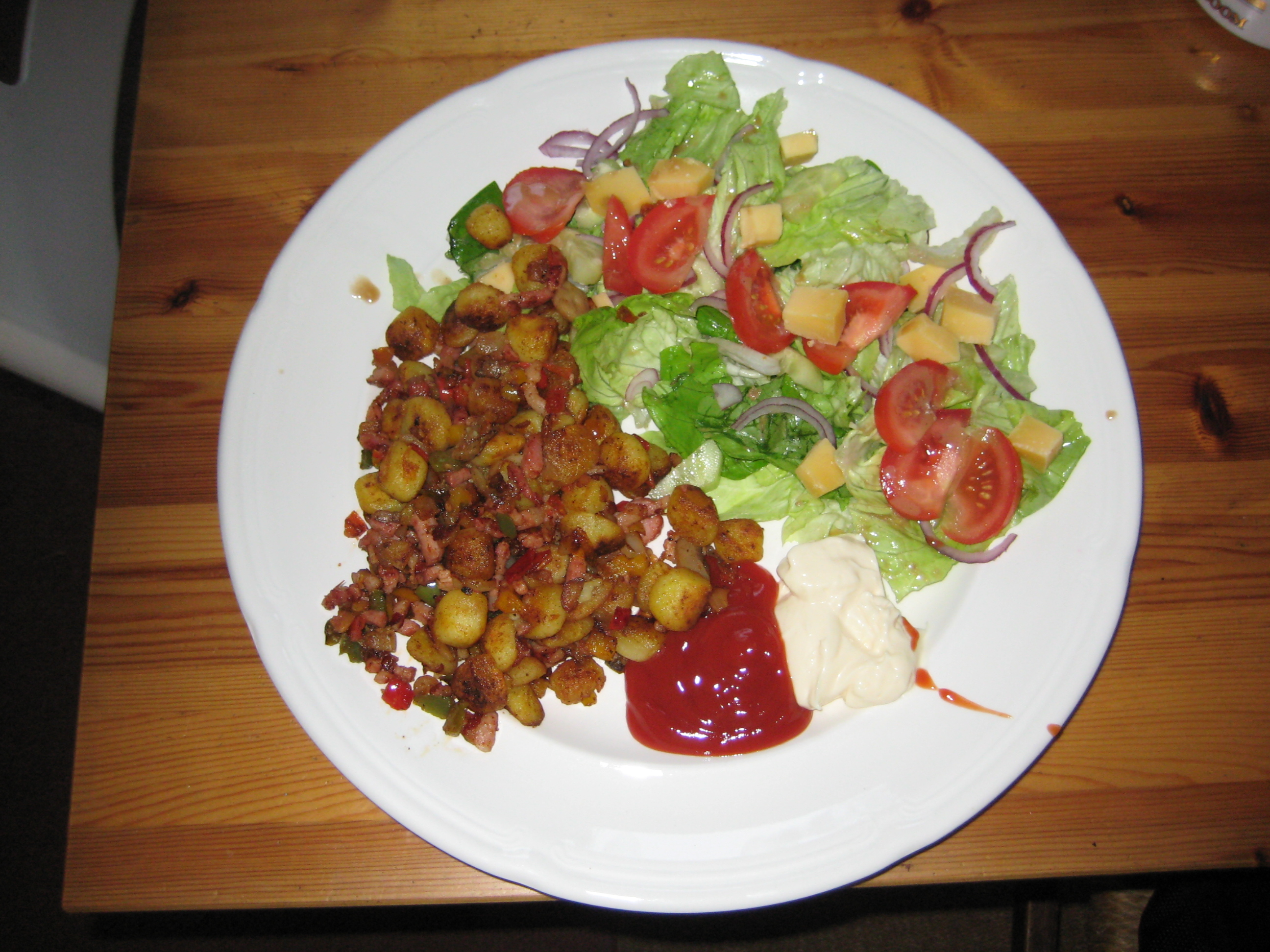 "Farmer's potatoes with salad"